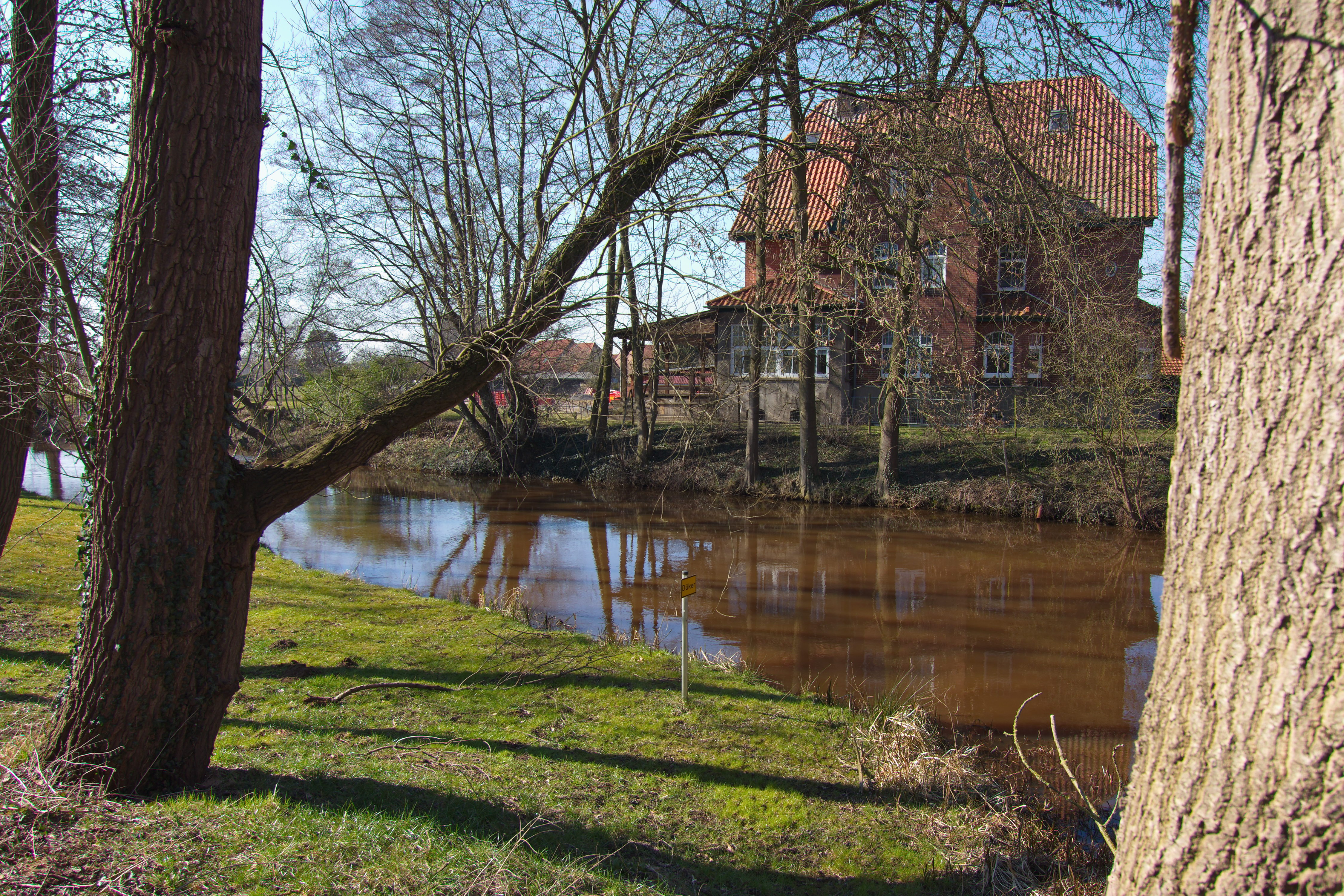 Blick auf die Große Aue in Steyerberg, Niedersachsen, Deutschland.